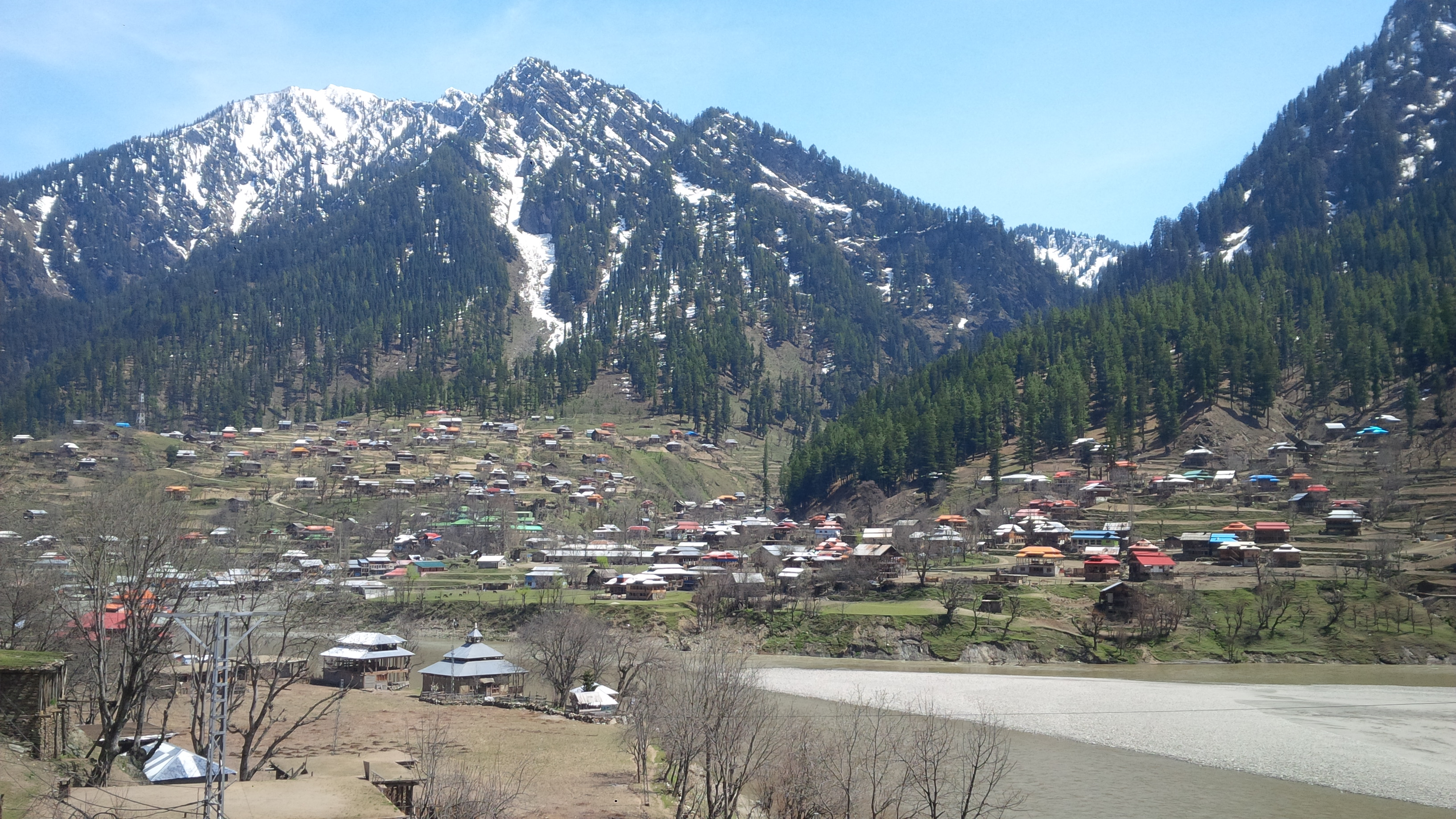 Valley right next to the indian border, the river separating two nations that are one race.